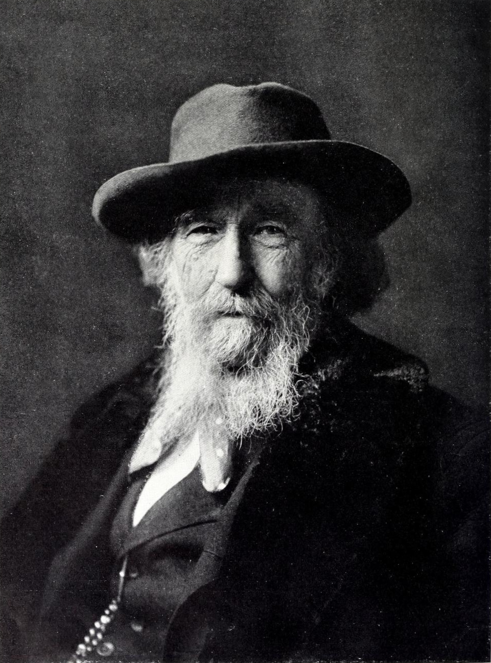 Painter Walter M. Brackett, at the age of 85